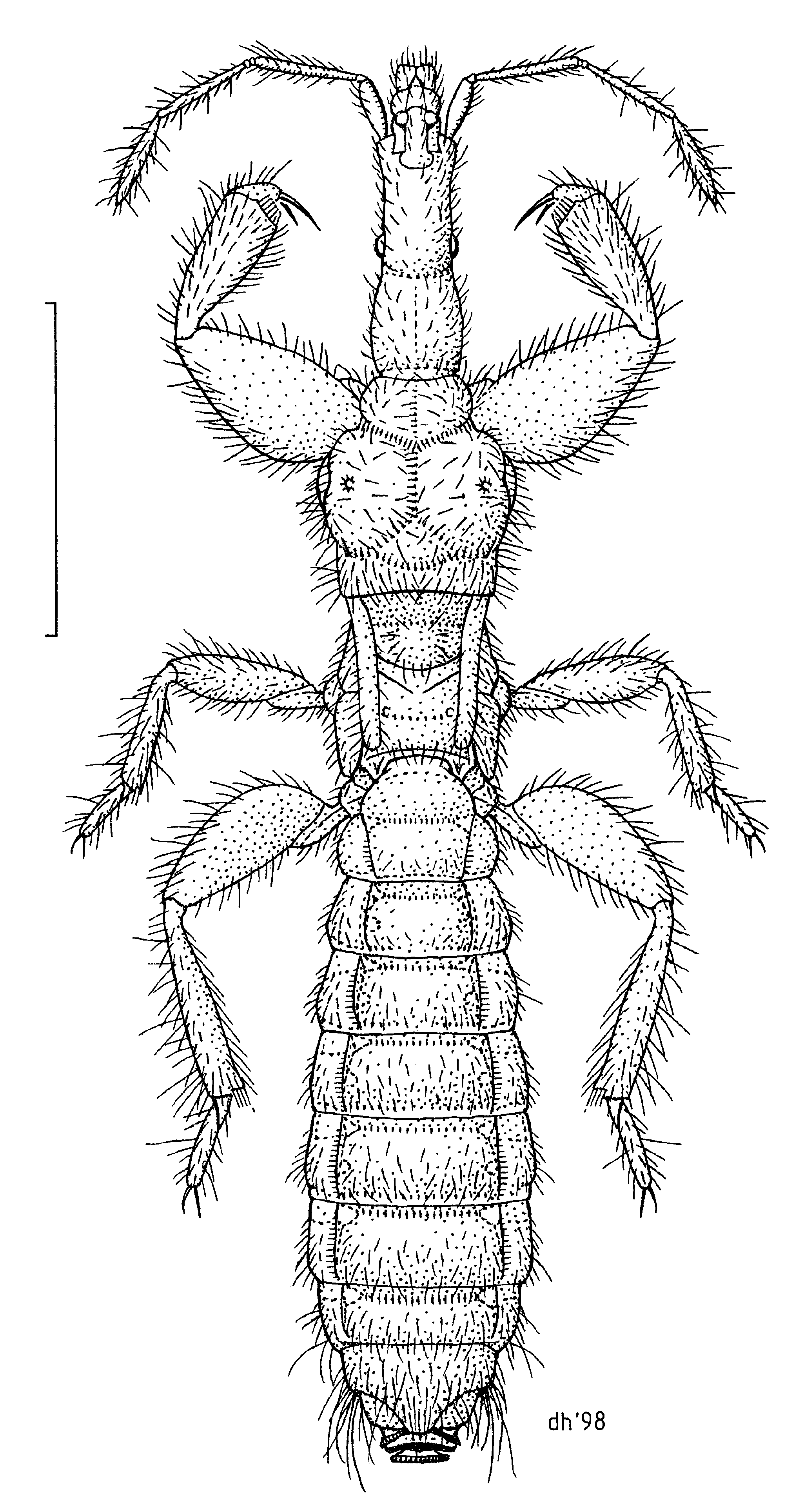 (Hemiptera: Enicocephalidae) Phthirocoris magnus, female illustrated by Des Helmore. [Current name is Phthirostenus magnus ... ThorpeStephen (talk) 05:28, 21 September 2018 (UTC)]